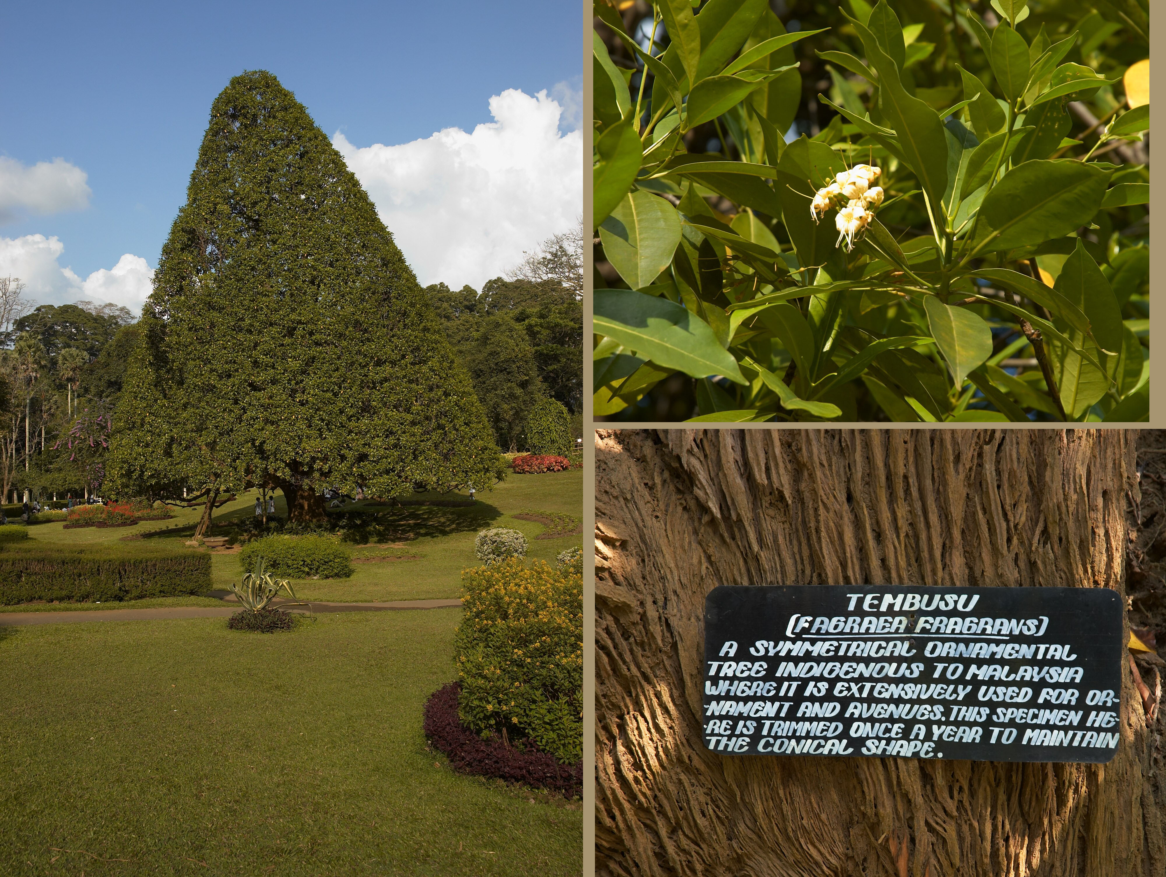 The tree Tembusu (Fagraea fragrans) in the botanic garden at Peradenia, a suburb of Kandy (Sri Lanka). Other common names: Buabua, Urung, Temasuk, Tatrao, Trai, Tam Sao, Tembesu, Anan, Ananma. (